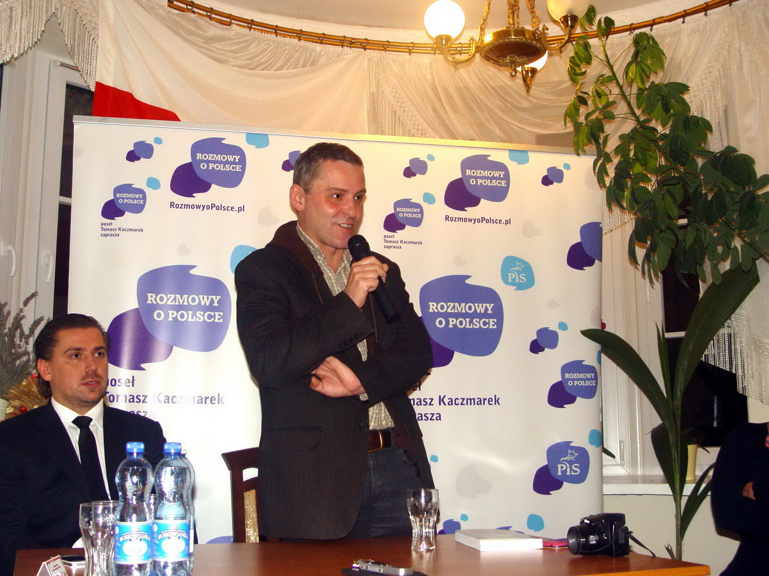 Cezary Gmyz and Tomasz Kaczmarek, during a meeting in Busko-Zdrój, 10 November 2013.